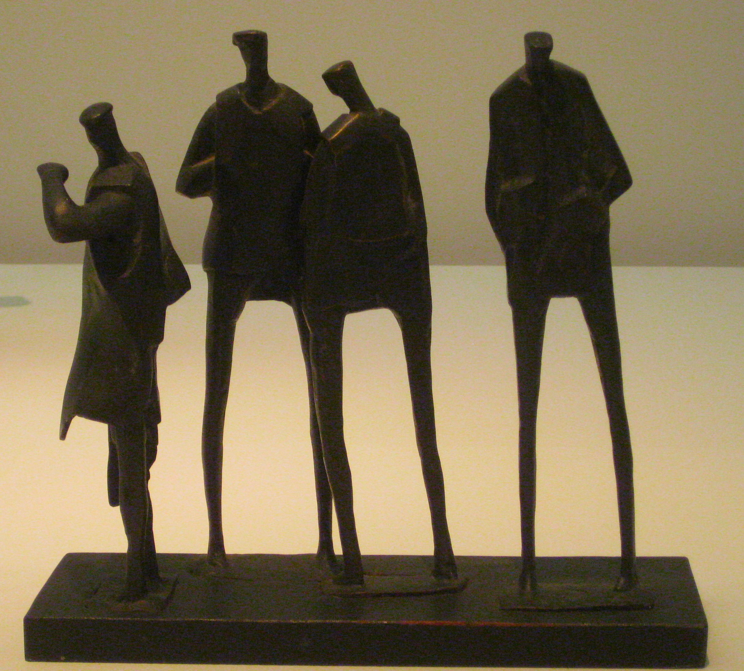 The Argument by Austin Wright. Cast in bronze.